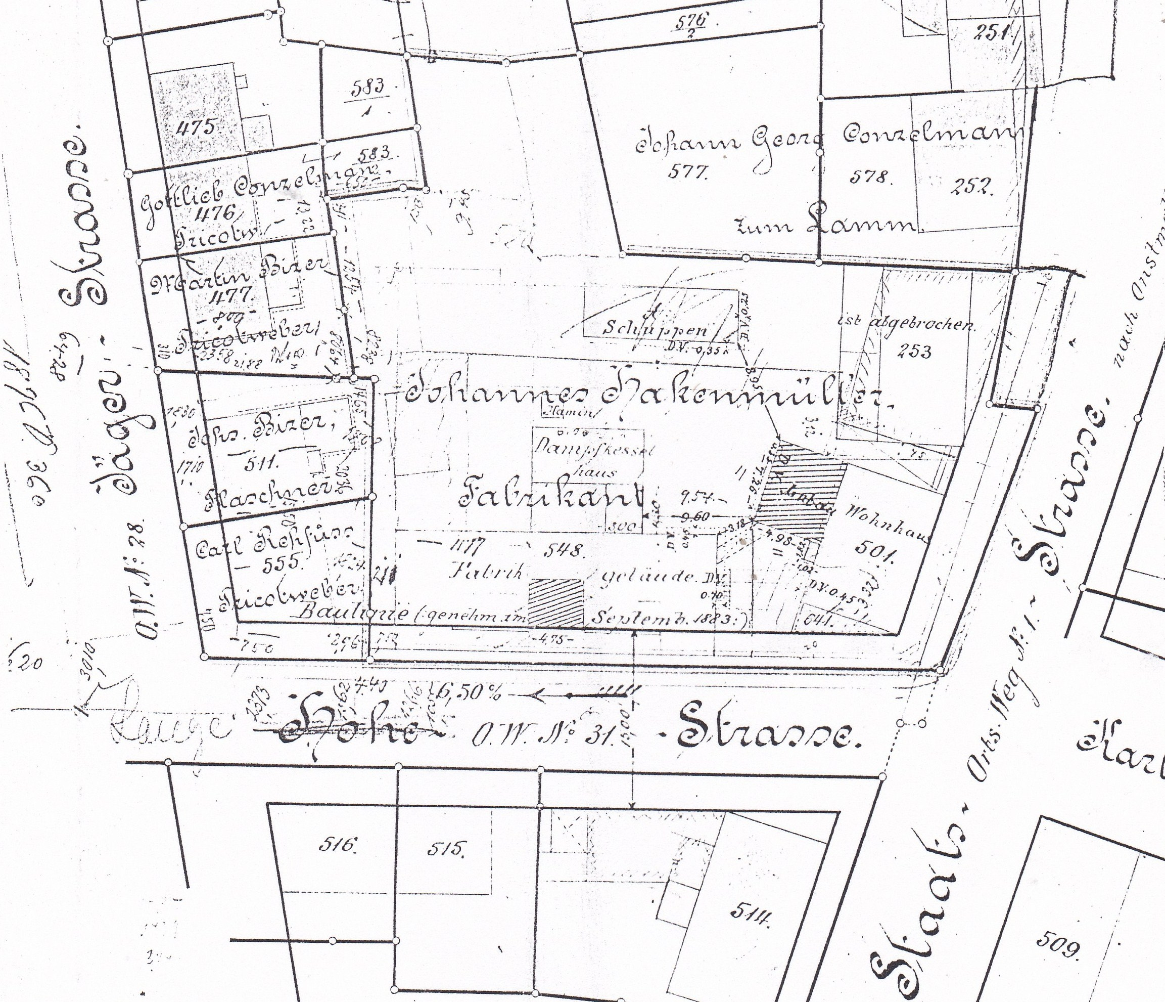 Step by step Johannes Hakenmüller, in 1887 founder of the J.H. called textile-enterprise in the center of Albstadt-Tailfingen on the Suebian Alb in South-Western-Germany, bought the land round the origine of his production, the house of his parents, to enlarge his buildings til 1937 up to one of the most remarkable one in the later German ´Trikotstadt`.